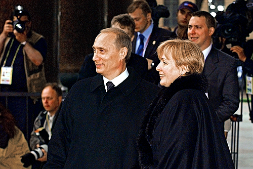 ST ISAAC\'S CATHEDRAL, ST PETERSBURG. President Putin and his wife, Lyudmila.